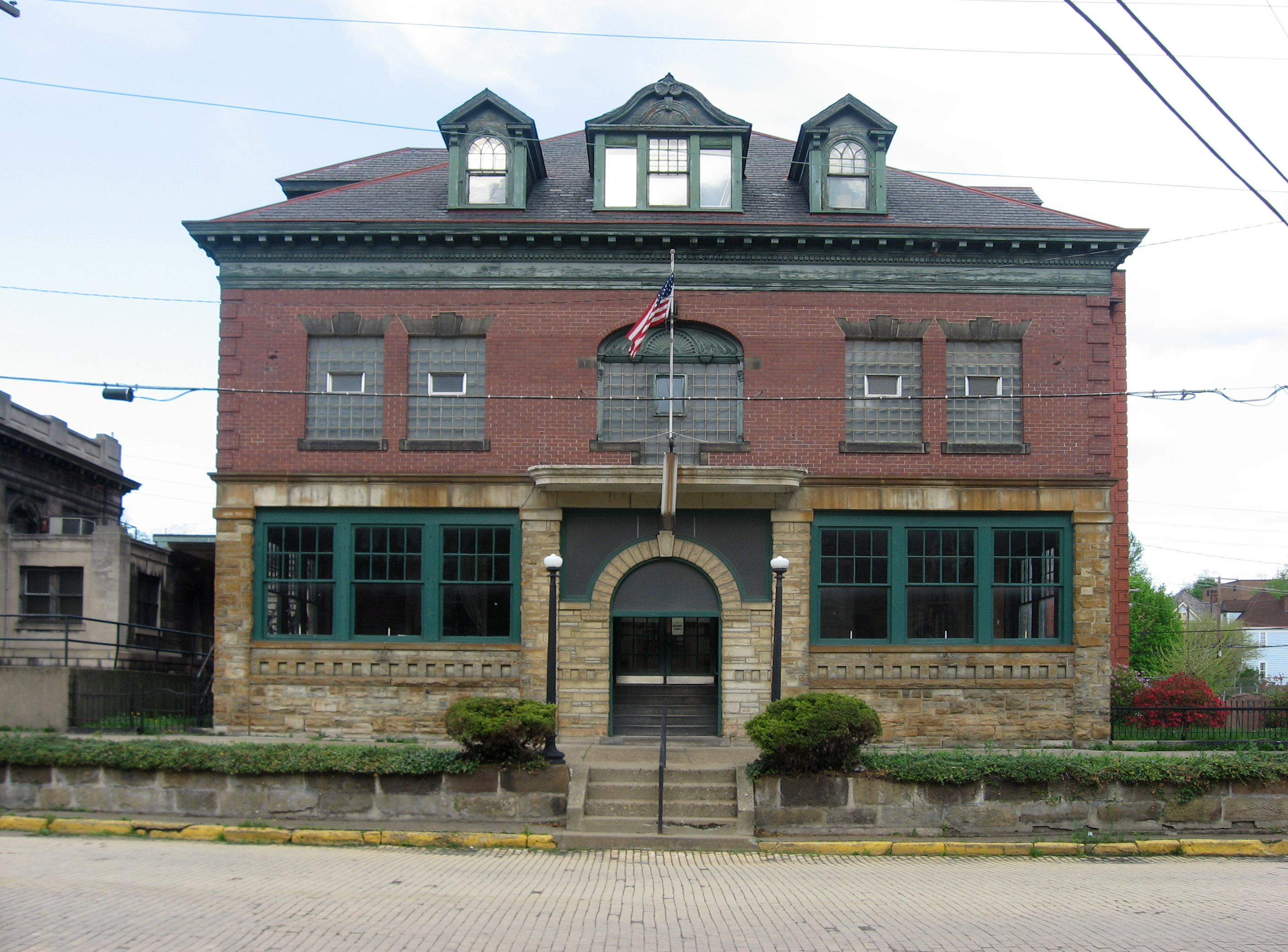 Front of the Godwin-Knowles House, located at 422 Broadway in downtown East Liverpool, Ohio, United States. Now a Masonic lodge, the house was built in 1890 and is listed on the National Register of Historic Places.